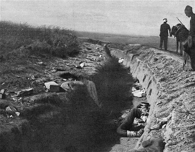 Empty Bulgarian trench following the Battle of Kilkis-Lahanas